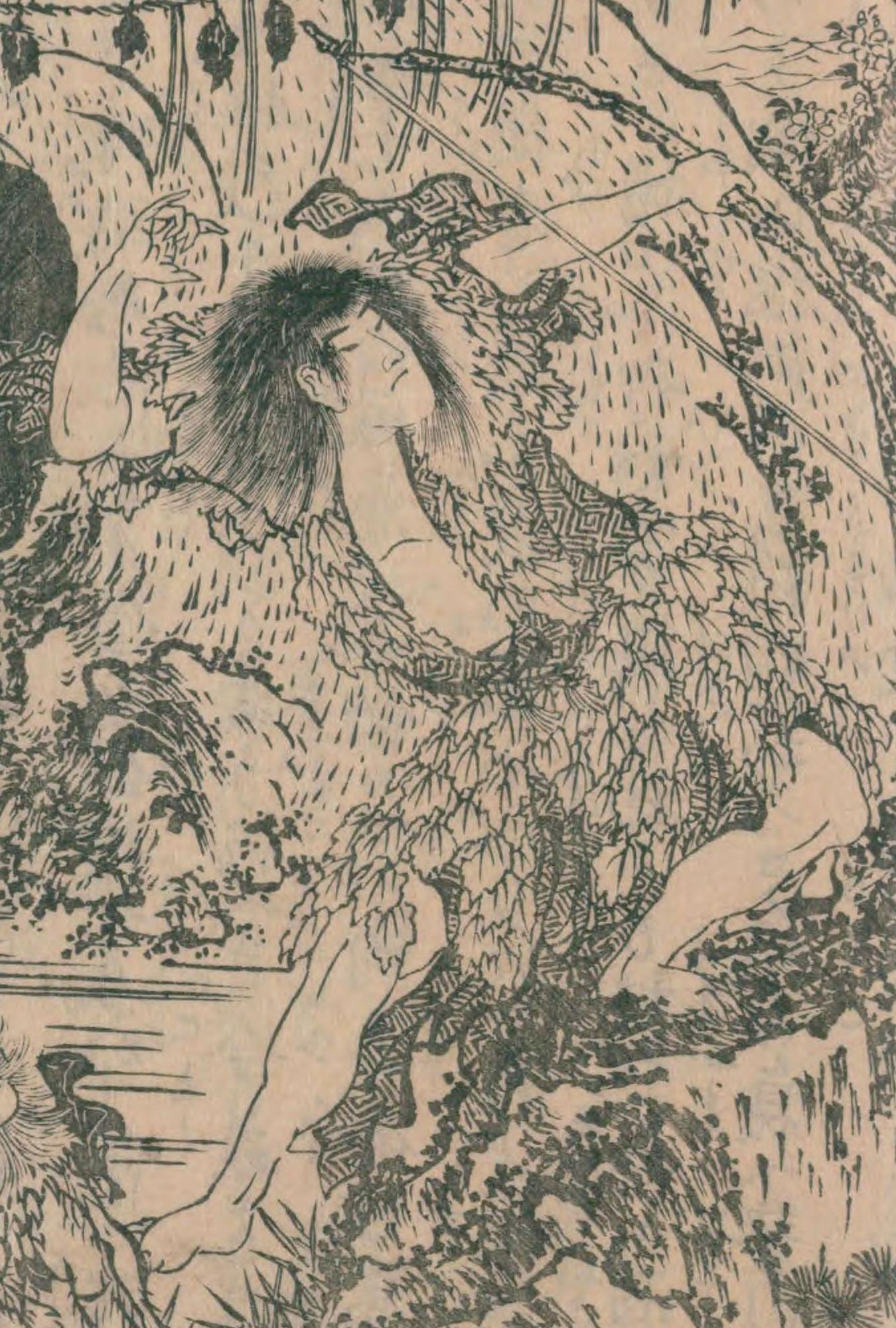 Sutemaru shooting down a bird in flight in the story Chinsetsu Yumiharizuki.